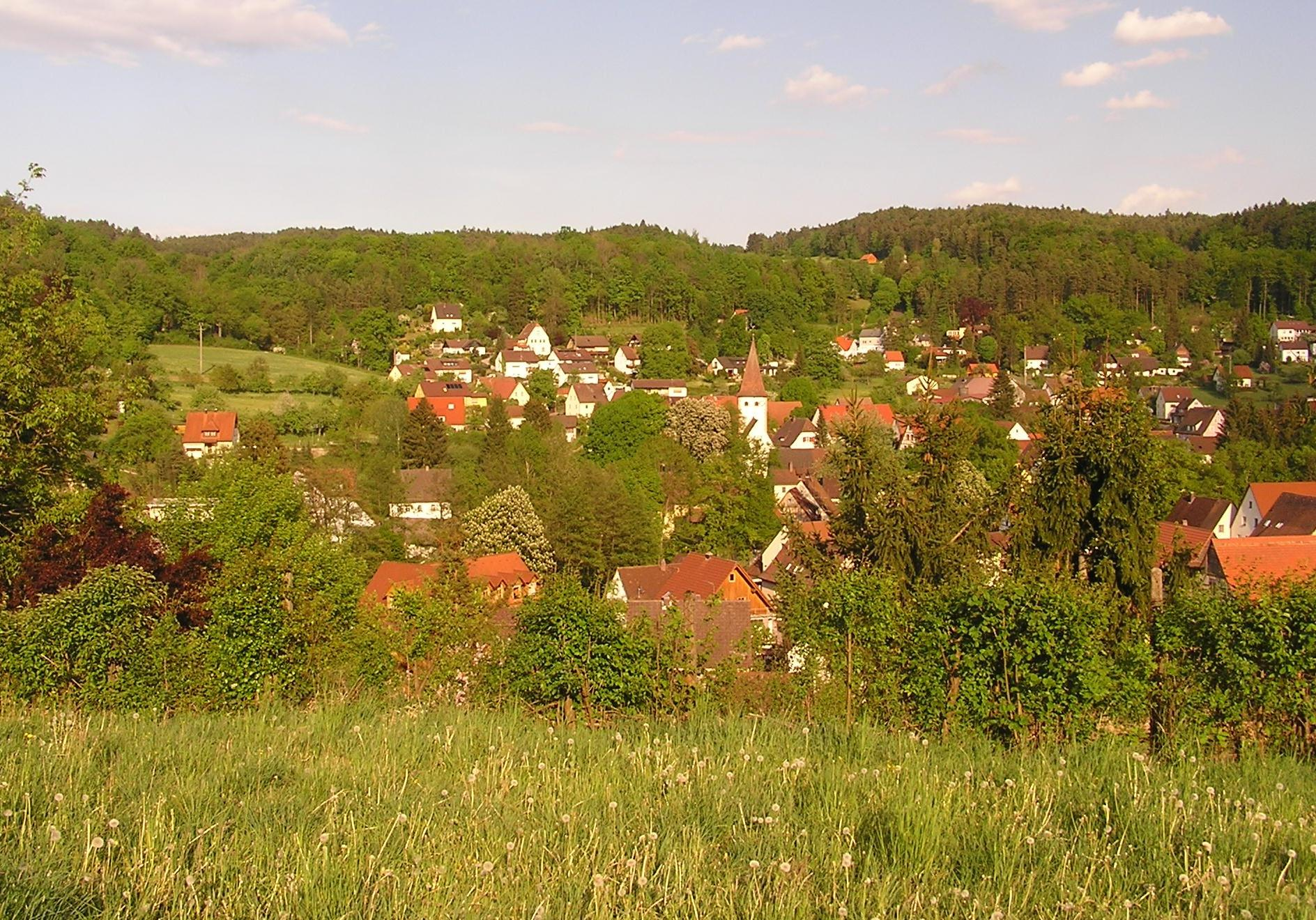 Vorra, a municipality in the Hersbrucker Alb (Middle Franconia).